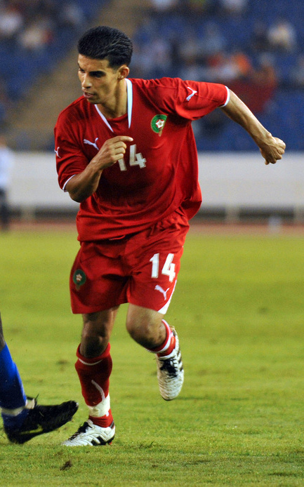 Moroccan football player Mbark Boussoufa while playing against Central African Republic